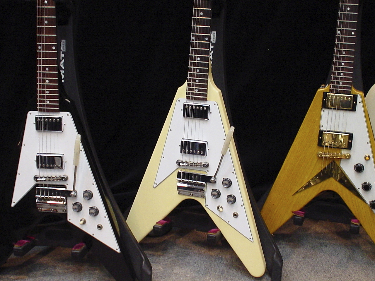 Gibson FlyingV